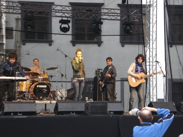 Slovak music group Puding pani Elvisovej, at the "Dni Eura" concert in Bratislava.